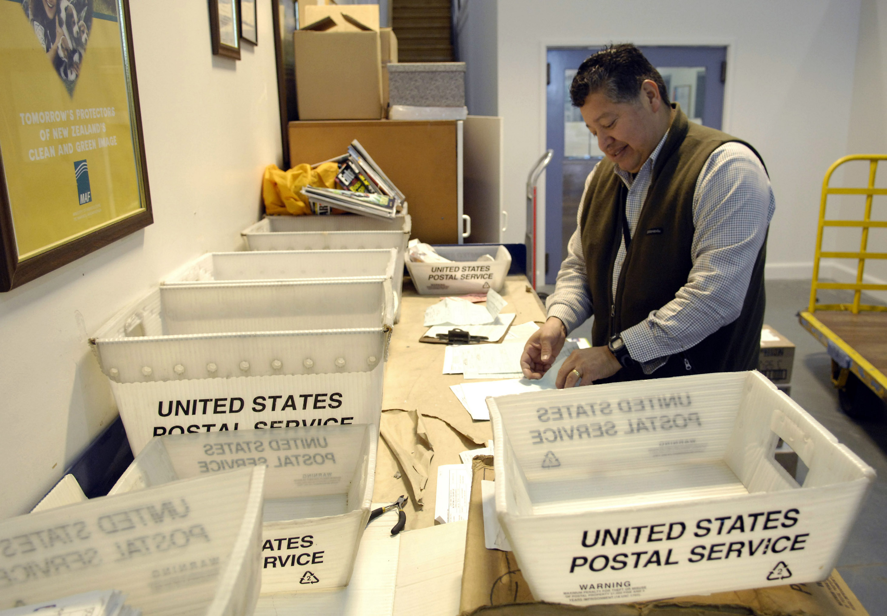 Enrique Garza sorts through incoming mail payment documents for Operation Deep Freeze members. Mr. Garza is a finance and postal clerk.